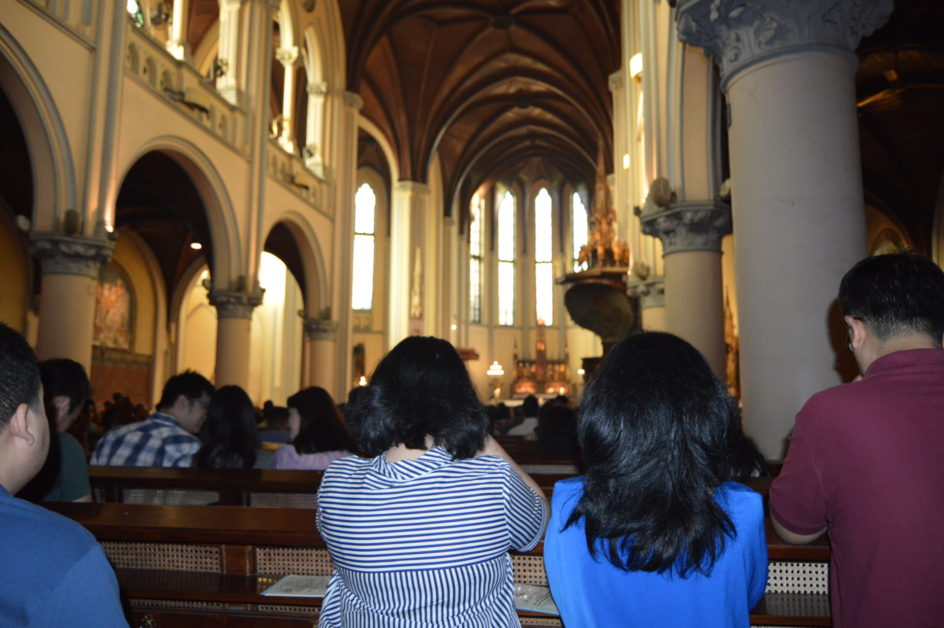 St. Mary of the Assumption Cathedral (Jakarta Cathedral), Indonesia during mass